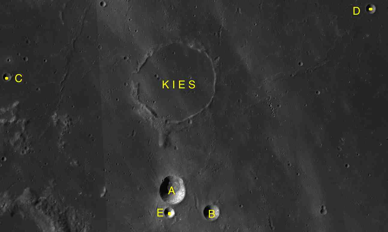 Part of the chart LAC-94 used for the presentation